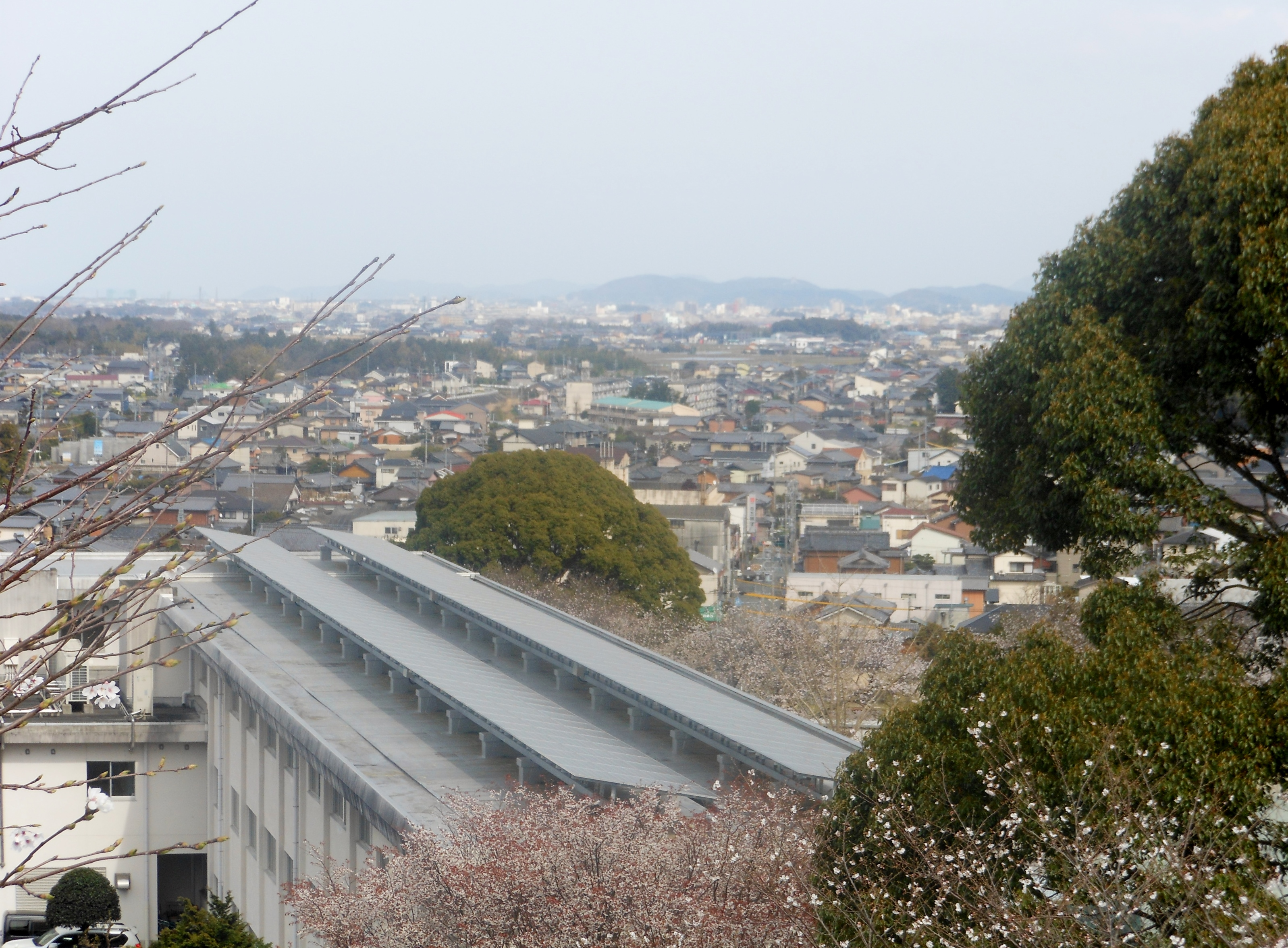 This is a scene from Tamaru castle in Tamaki, Mie, Japan.